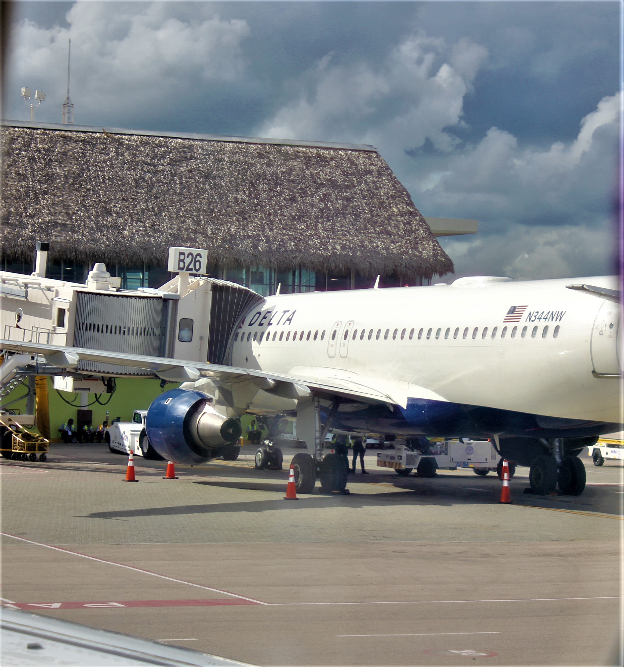 Punta Cana International Airport apron